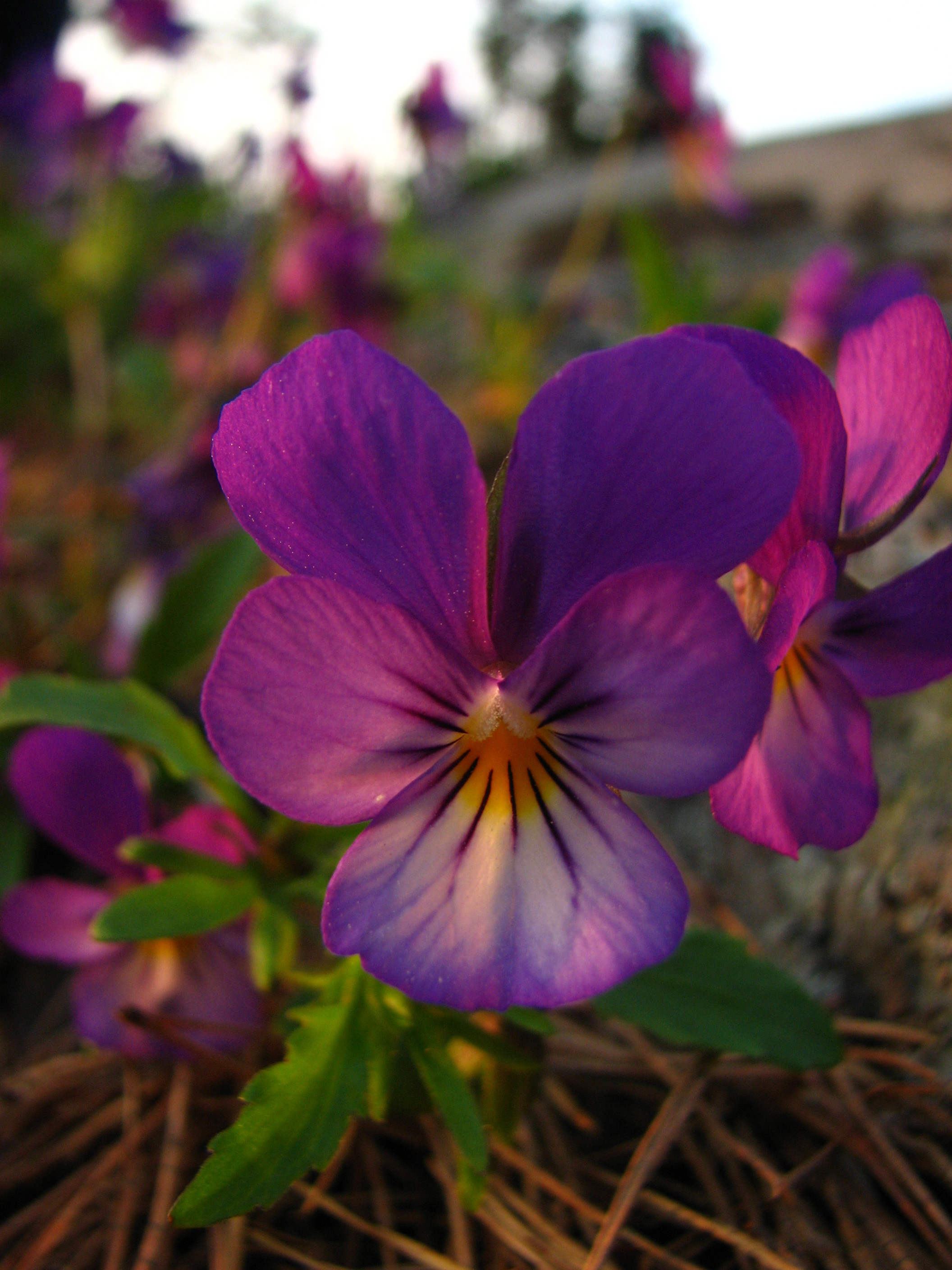 Viola tricolor. Found on an island south of Dalarö, Sweden.